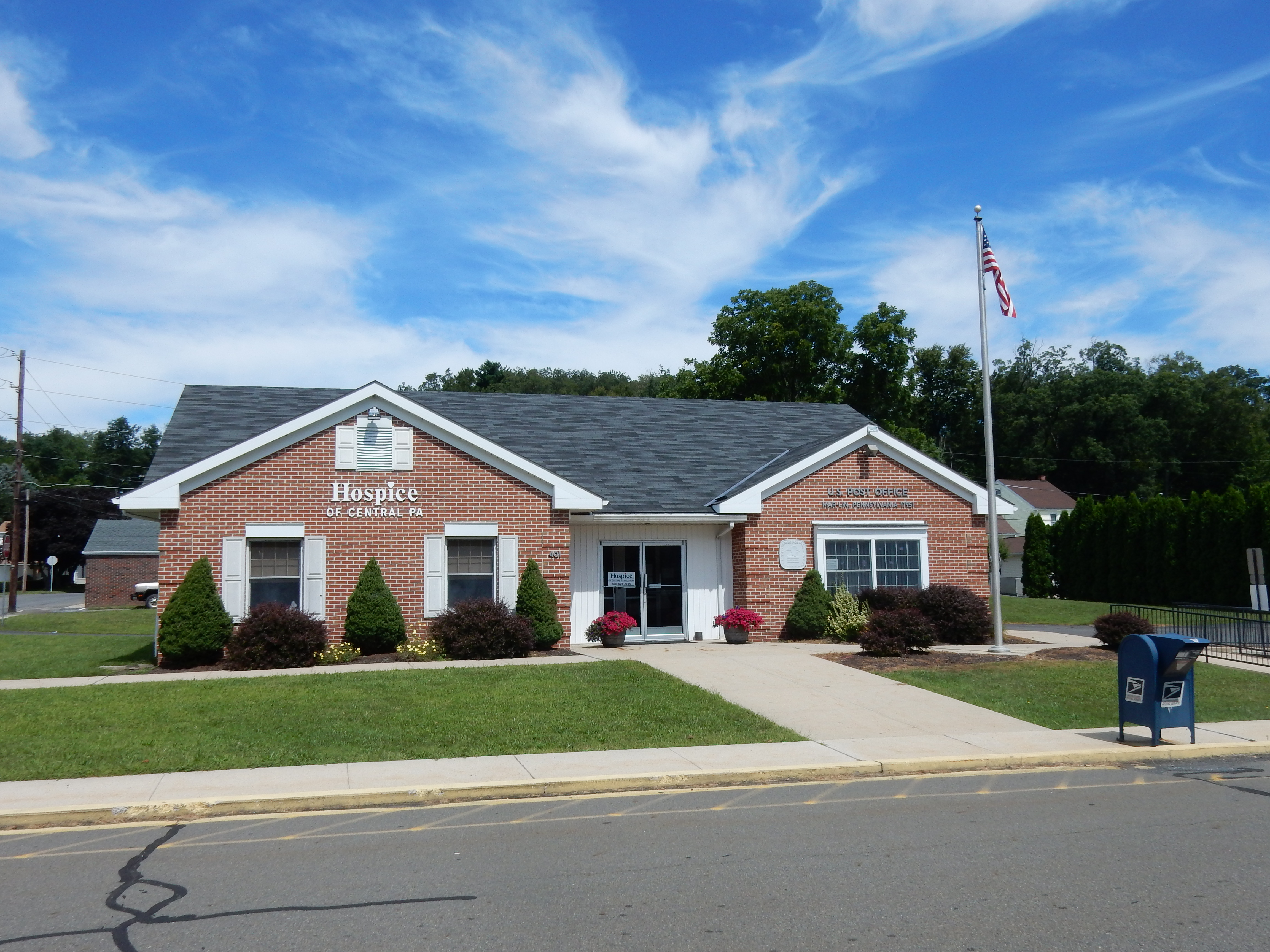 Post Office and Hospice of Central PA, Mar-Lin, Norwegian Township, Schuylkill County, Pennsylvania.